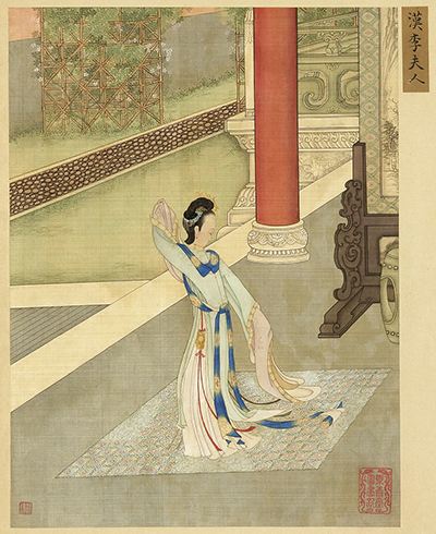 This painting depicts Lady Li of Han (漢李夫人).